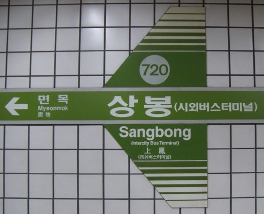 Sangbong Station